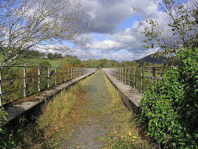 On Drygrange Viaduct At the southern end of the viaduct that was opened in 1865 for the Berwickshire Railway that ran from St Boswells to Reston. The line was closed in 1948 but the bridge is in the care of Historic Scotland.